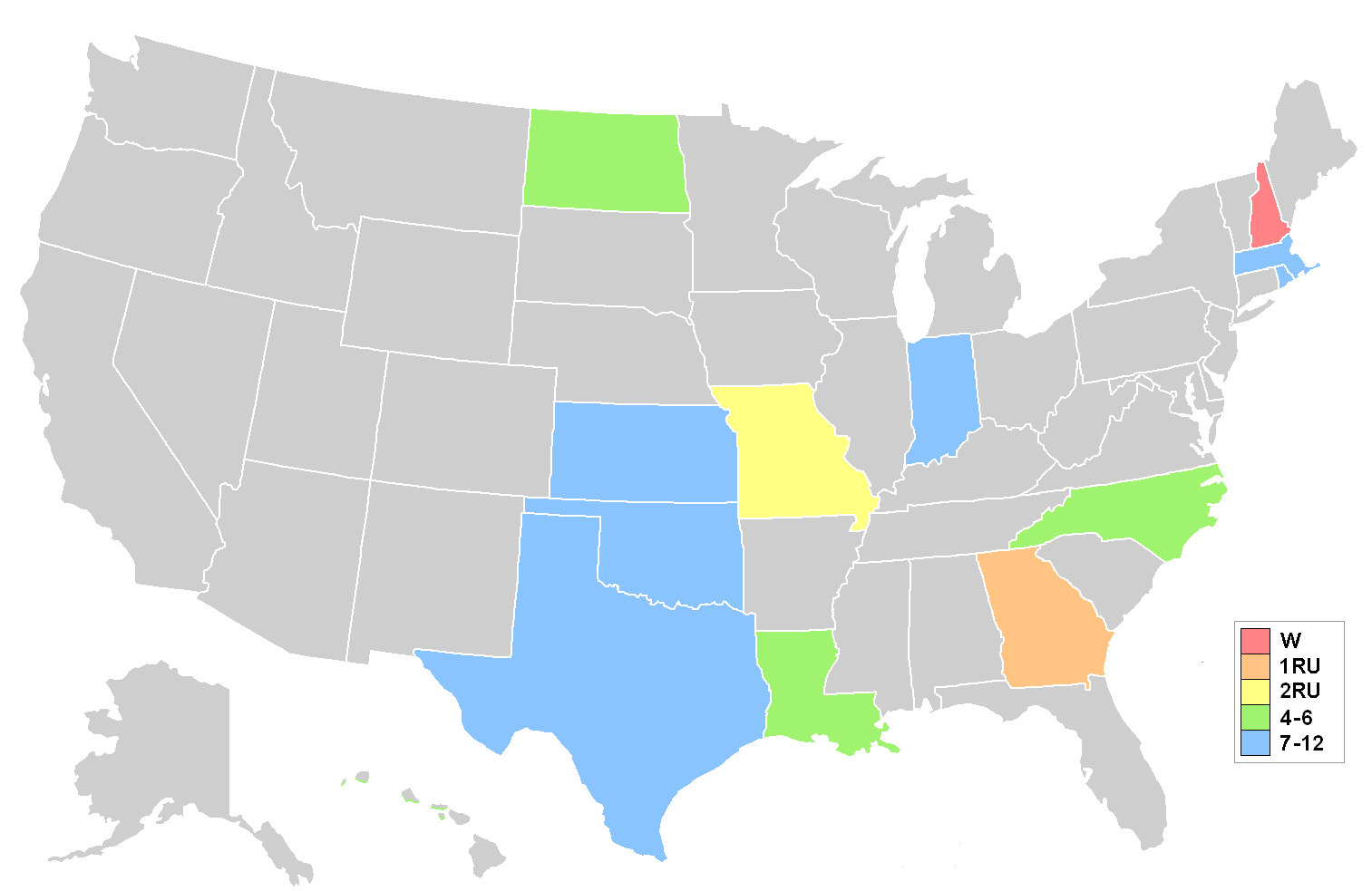 Map showing placements at the Miss Teen USA 1991 pageant. Key on graphic shows colour coding for break down of placements.